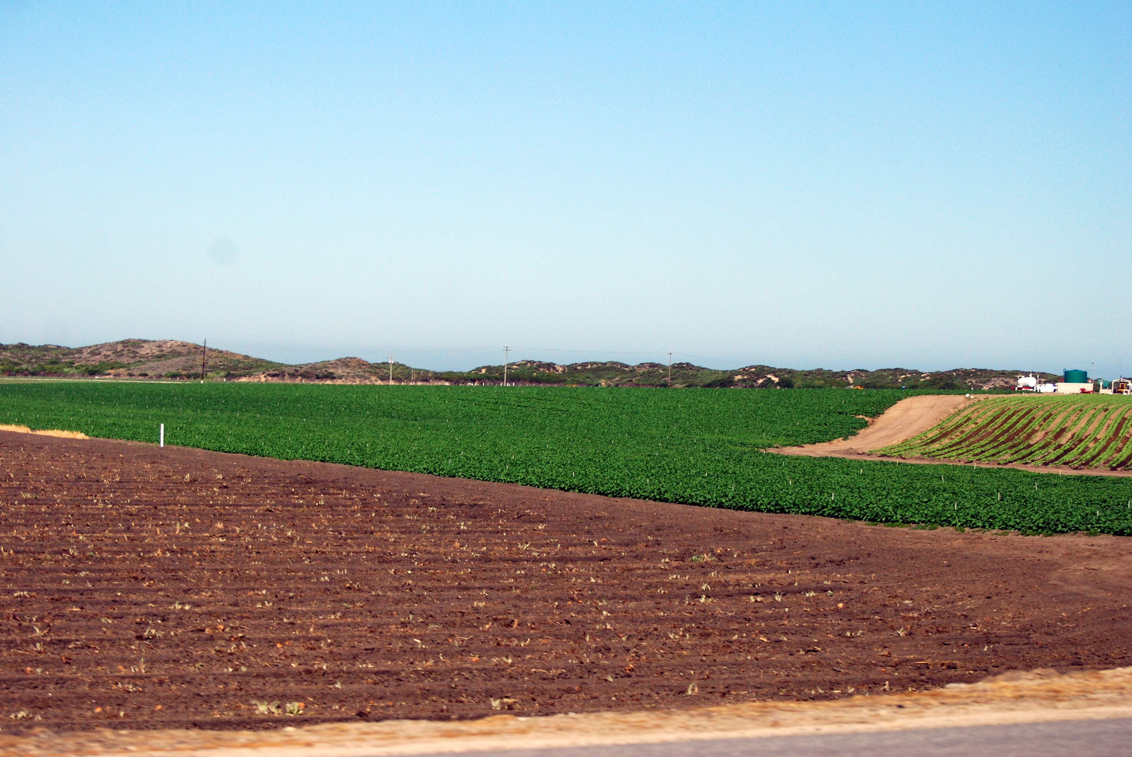 Farmland at Moss Landing, California.